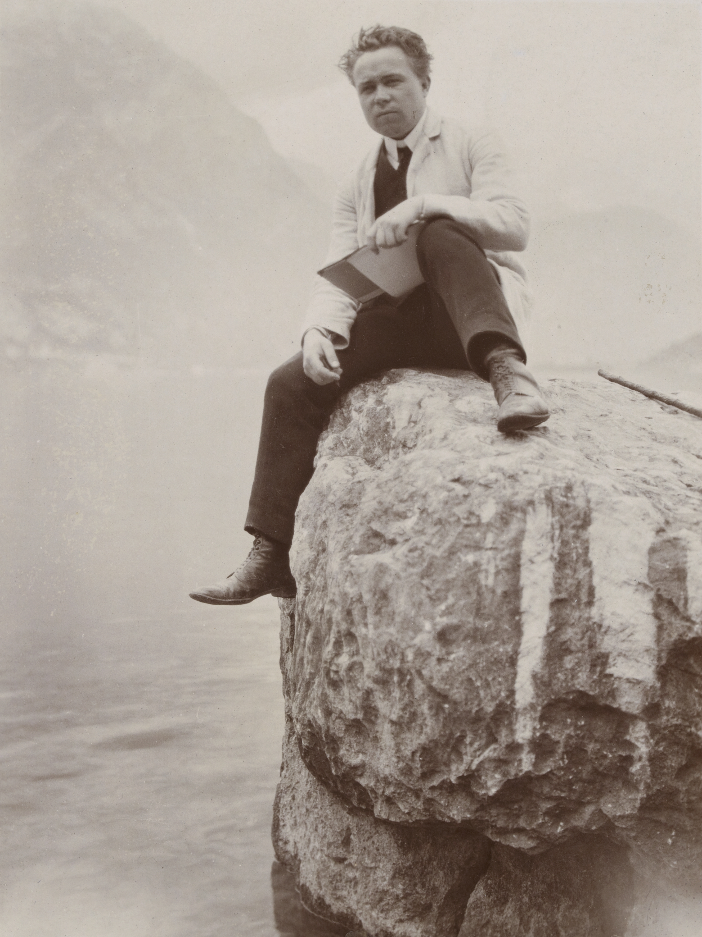 Photograph of the Finnish painter Santeri Salokivi (1886–1940) at Garda Lake in Italy.